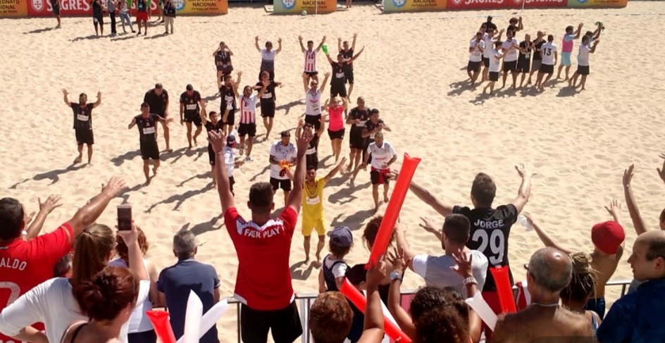 Beach soccer game between Varzim and Leixões